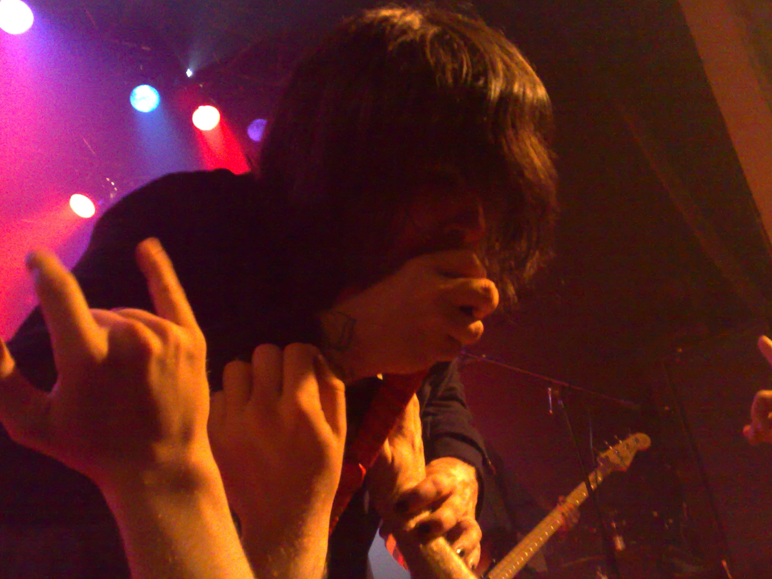 Nikolay Minkov